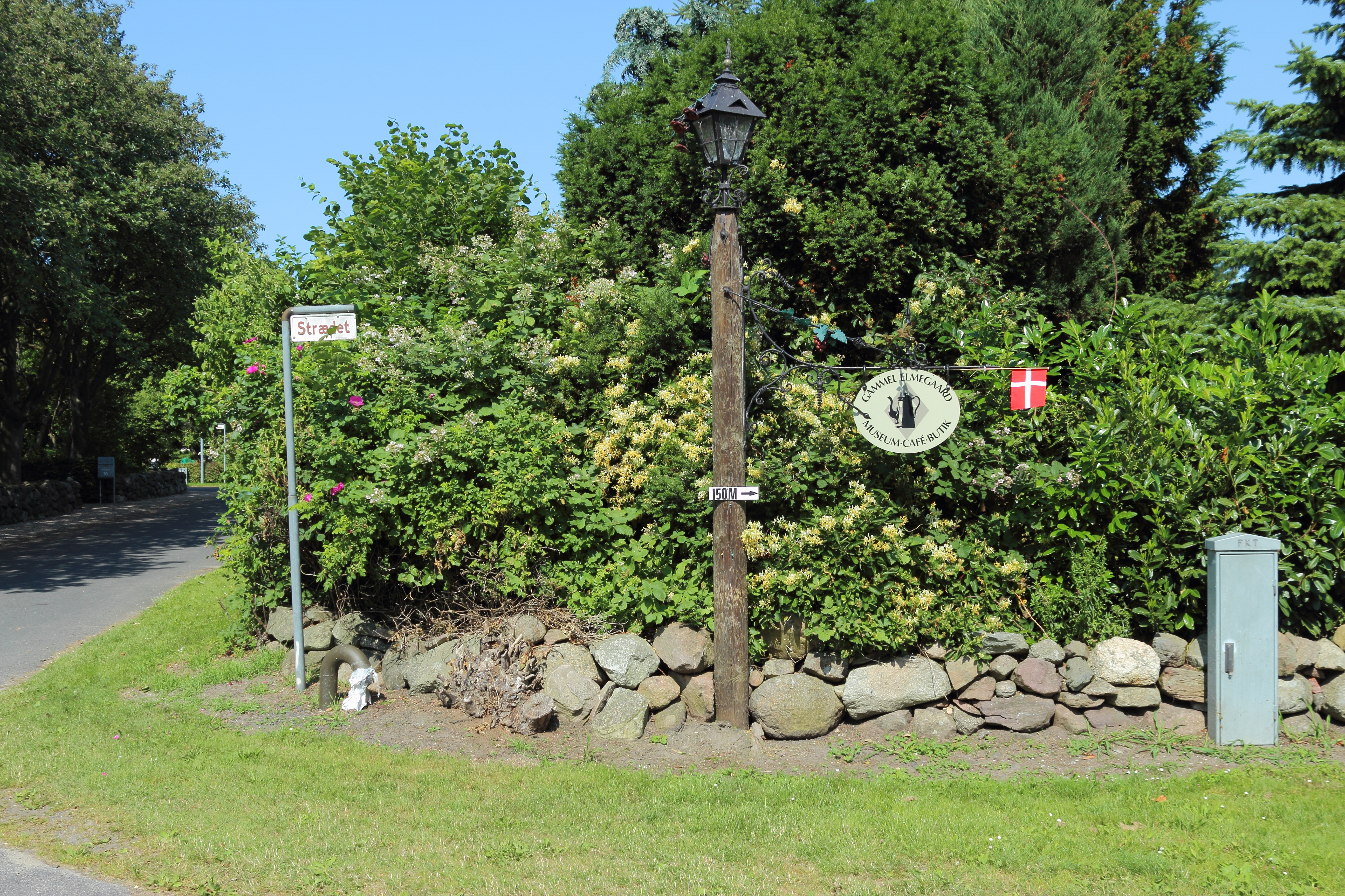 At the corner between the roads Drejø Brovej and Strædet in Drejø By on the island Drejø, Denmark facing West. A lamp post with a sign to the museum Gammel Elmegård is shown.